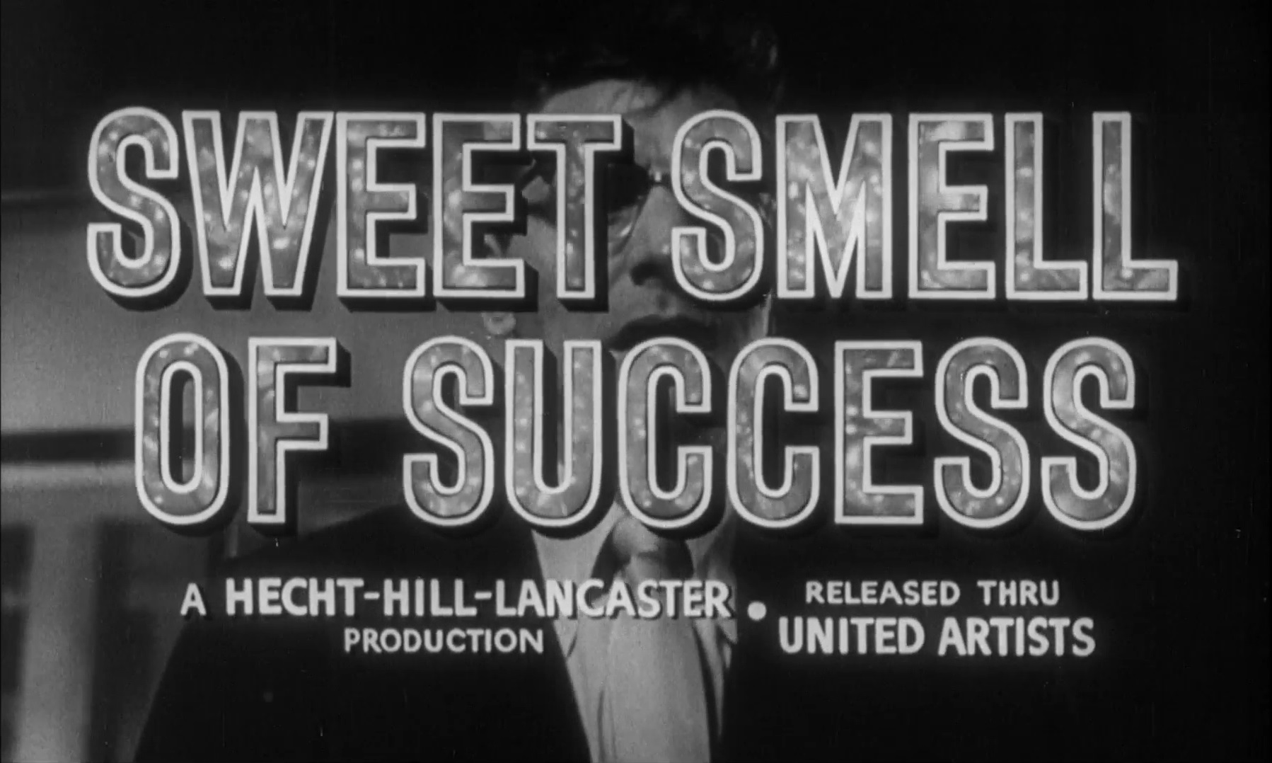 Title of the film "Sweet Smell of Success" taken from the trailer.